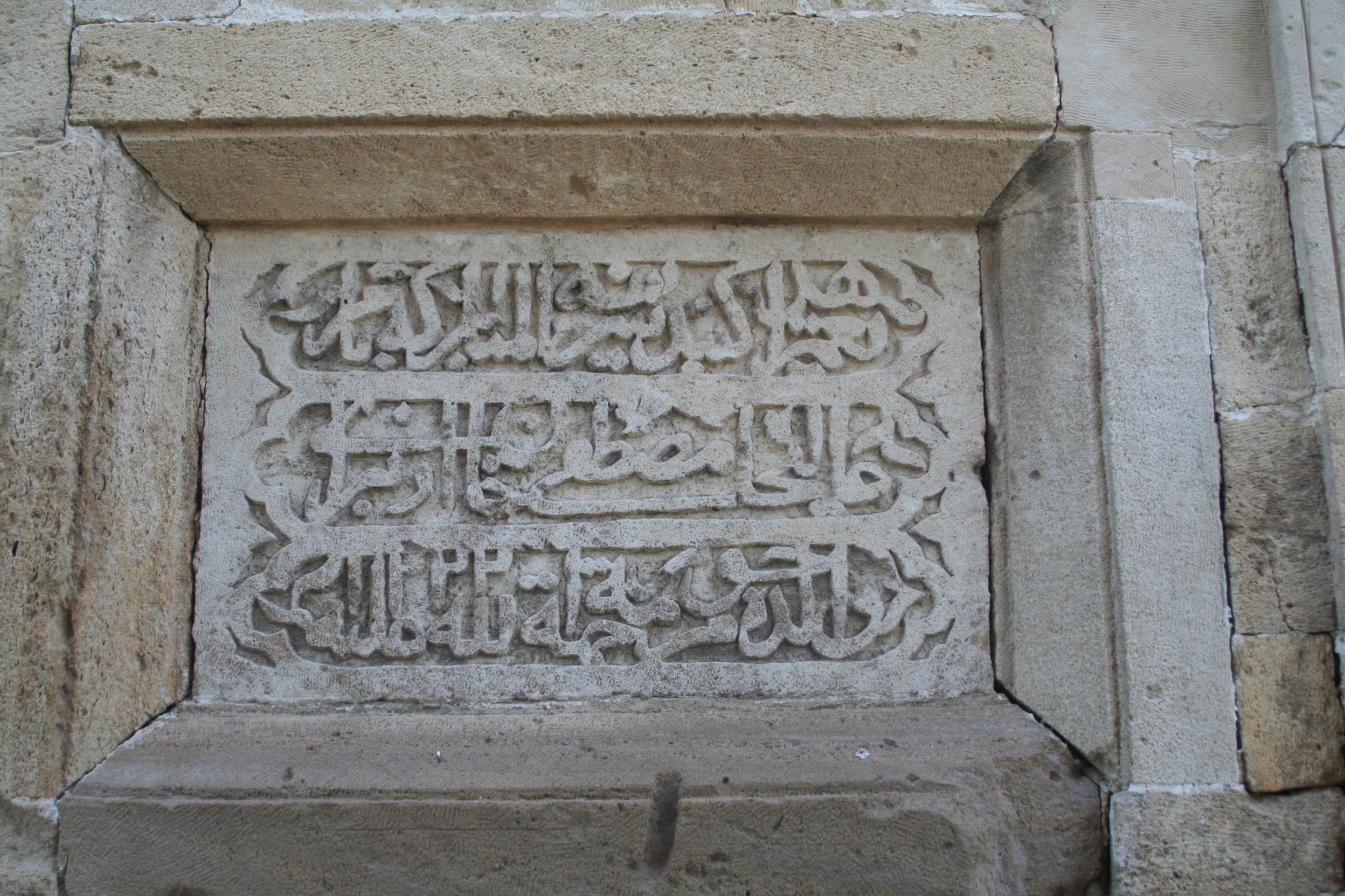 Kitabe of the first of the Yeddi Gumbez Mausoleum (with destroyed dome)